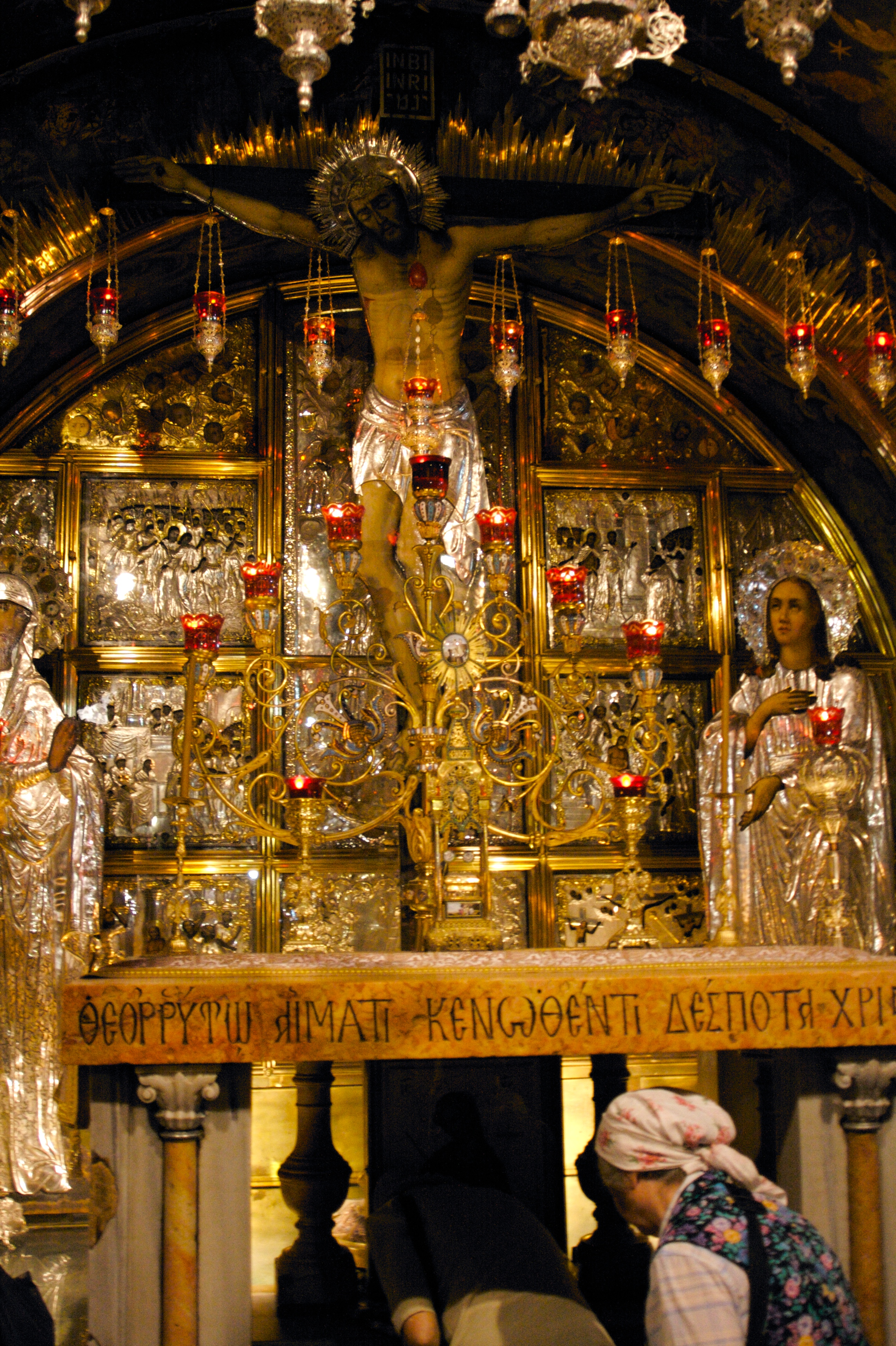 Altar of Calvary (Golgotha), Church of the Holy Sepulchre, Jerusalem